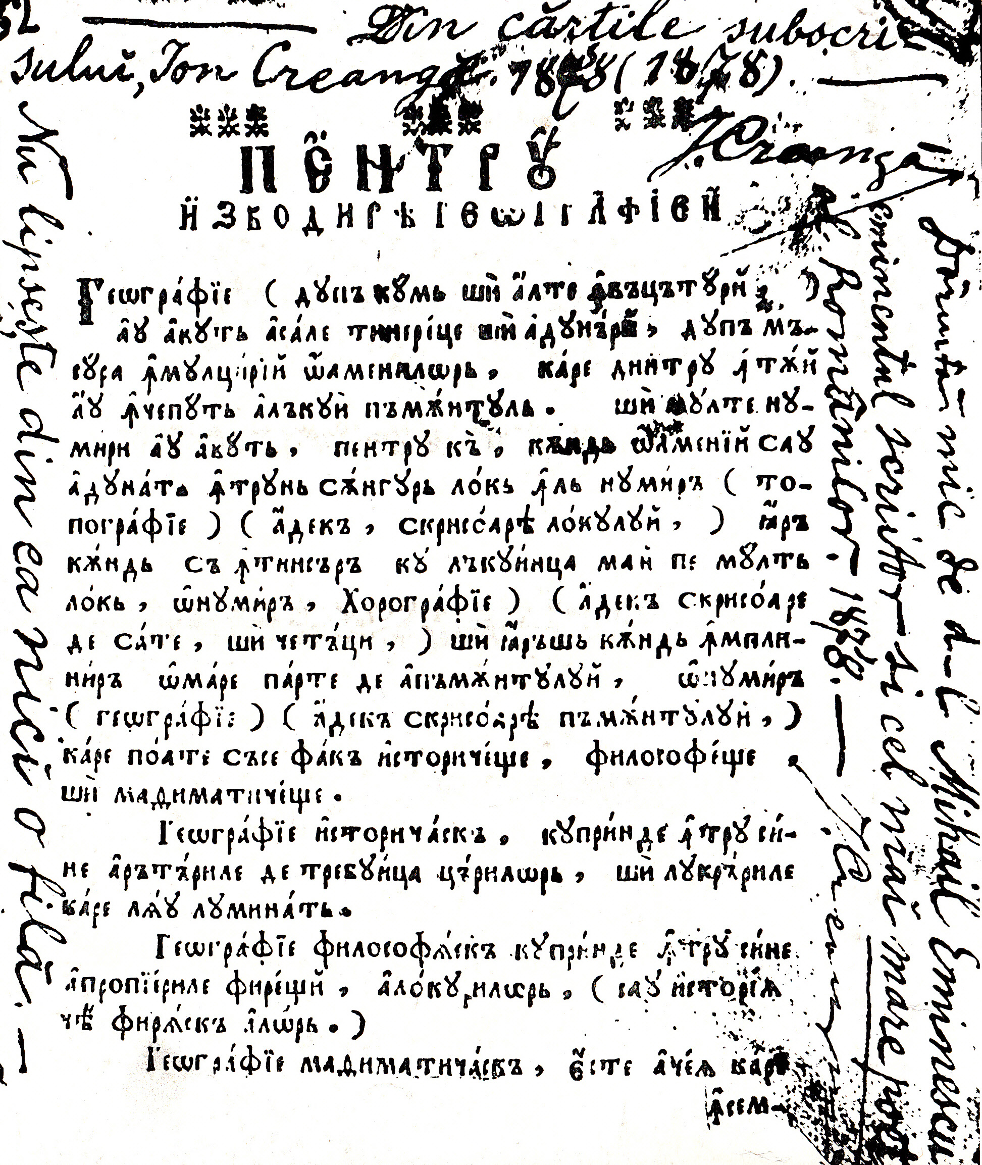 First page of a Romanian Cyrillic book, with marginalia (ex libris) by writer Ion Creangă. His note reads: Din cărţile subscrisului Ion Creangă 1878. Dăruită mie de dl. Mihail Eminescu, eminentul scriitor şi cel mai mare poet al Românilor. 1878. Nu lipseşte din ea nici o filă. I.Cr. ("One of the books owned by the undersigned Ion Creangă 1878. Gifted to me by Mr. Mihail Eminescu, the eminent writer and the greatest poet among Romanians. 1878. No page is found missing").